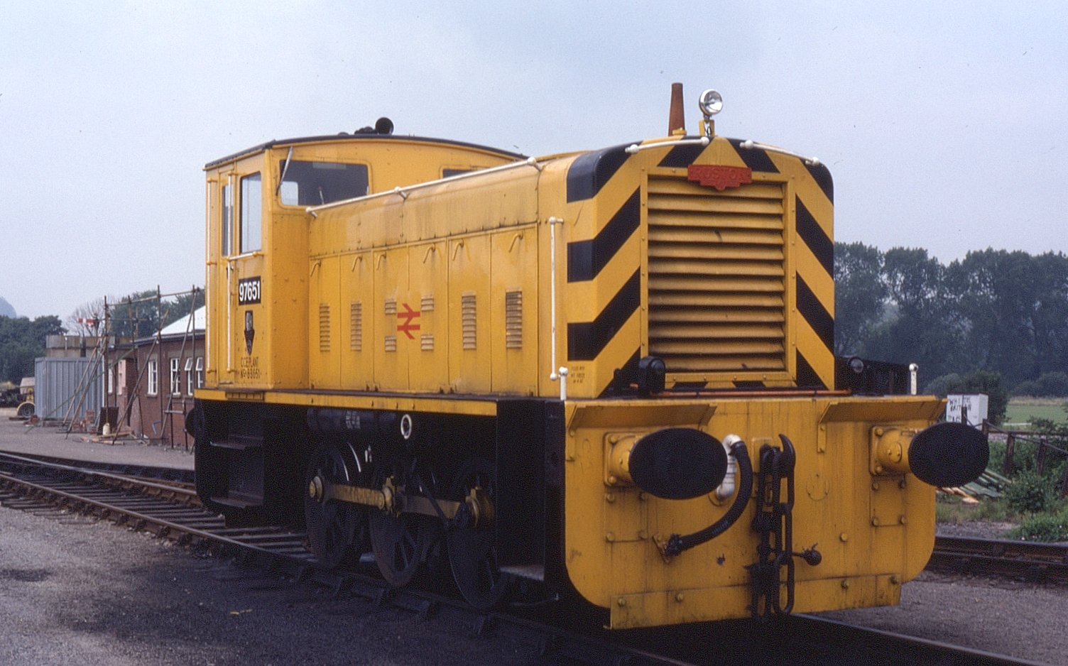 Taken during a depot visit to South Wales in July 1982. 5 of these diesel-electric shunters were built by Ruston Hornsby for the Western Region. Originally PWM650 to 654, they were re-numbered into the departmental class 97 series under the British Rail numbering scheme. They moved around the region and would generally be seen at permanent way yards such as this view at Radyr. Three of the 5 still survive in preservation, including this one which now is now with the Strathspey Railway in Scotland.